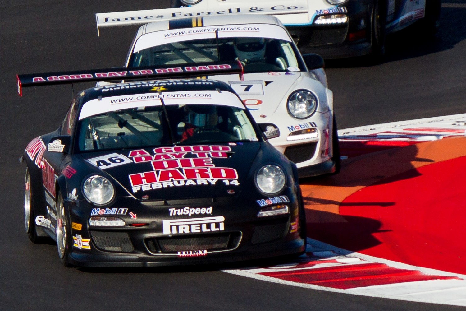 Porsche 997 GT3 Cup of TruSpeed Motorsports with an advertisement for the 2013 action film A Good Day to Die Hard, picture taken during the Porsche Supercup race that ran as support to the 2012 United States Grand Prix in Austin, TX.